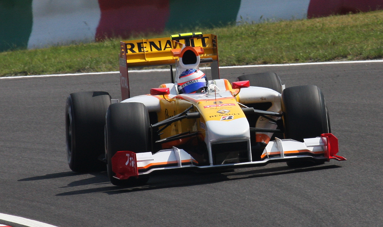 Formula One 2009 Rd.15 Japanese GP: Romain Grosjean (Renault) running in Saturday 3rd Free Practice session at the 2009 Japanese Grand Prix.